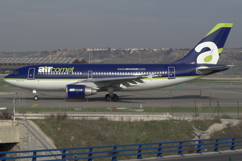 Air Comet Airbus A310-300 EC-GMU